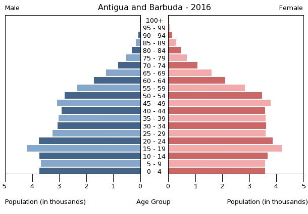 The population pyramid of Antigua and Barbuda illustrates the age and sex structure of population and may provide insights about political and social stability, as well as economic development. The population is distributed along the horizontal axis, with males shown on the left and females on the right. The male and female populations are broken down into 5-year age groups represented as horizontal bars along the vertical axis, with the youngest age groups at the bottom and the oldest at the top. The shape of the population pyramid gradually evolves over time based on fertility, mortality, and international migration trends.